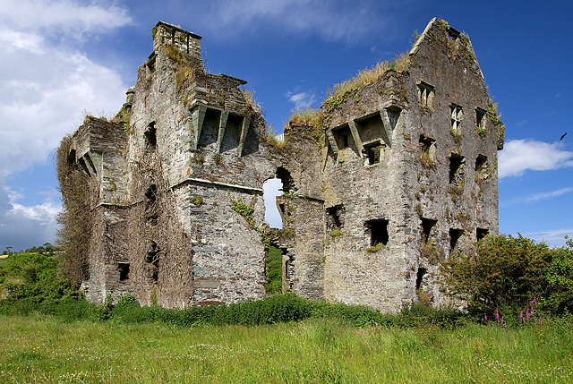 Castles of Munster: Coppingers Court, Cork Named after the notorious Cork merchant Sir Walter Coppinger who built it between the 1620s and 30s, this stronghouse stands in a field south of a thinly walled bawn. It consists of a two storey block containing fine state rooms, plus rooms for servants in the attic within the roof. Two four storey wings project northwards, each with machicolated parapets over corbels, with similar machicolations upon the ends of the main block's south wall. Most of the windows have been ripped out, but some fragments still remain in the south wing seen here on the right. A later Walter Coppinger and his son Dominic were rebel Catholics and were attainted by the Williamite government in 1691. The house was later held by the Beecher family as tenants of the Hollow Blade Sword Company.